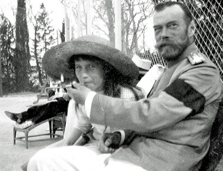 Anastasia and Nicholas II. smoking